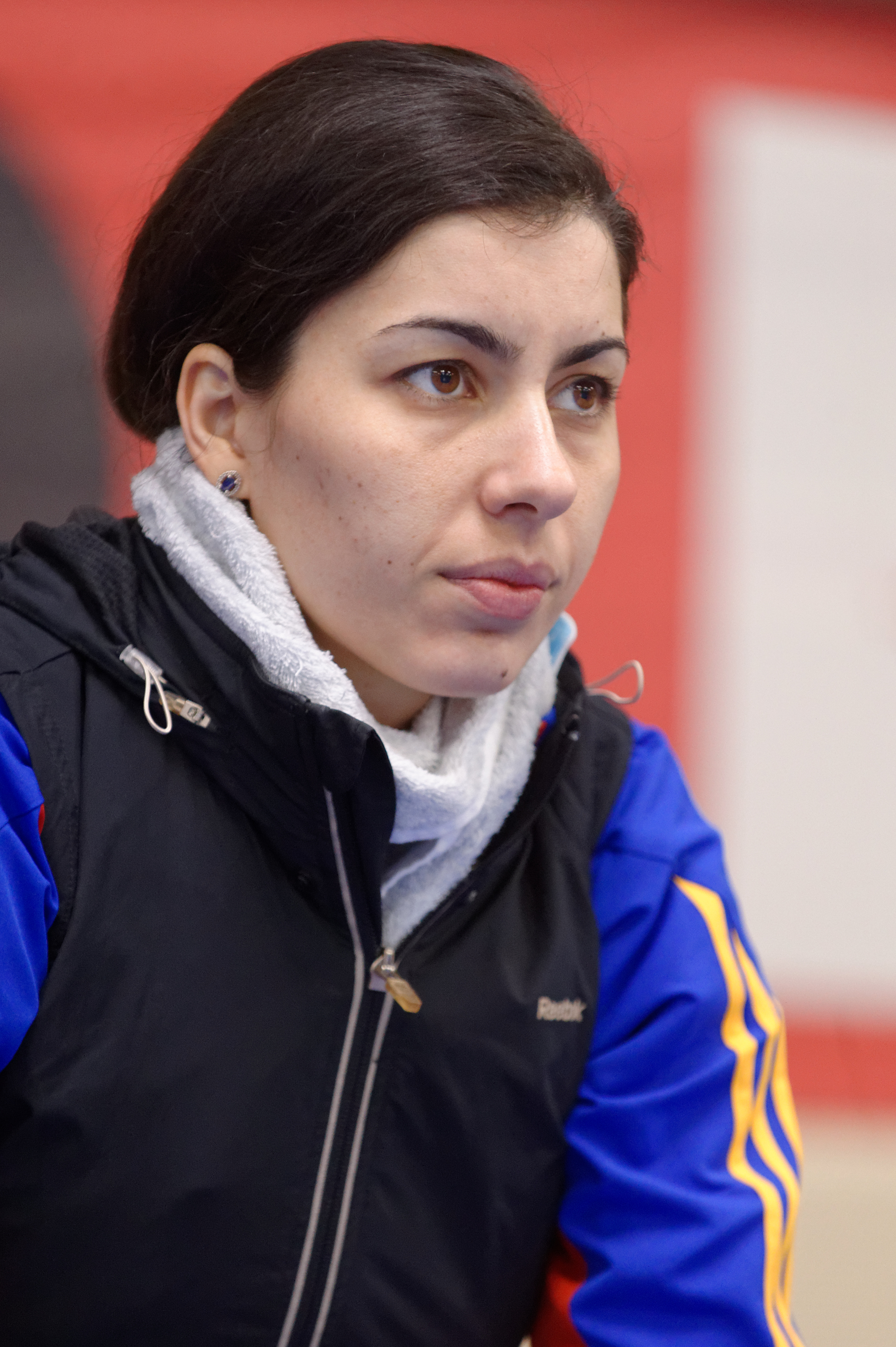 Romania's Loredana Dinu during the qualification stage of the 2015 Trofeu International Ciutat de Barcelona, a women's épée World Cup competition.